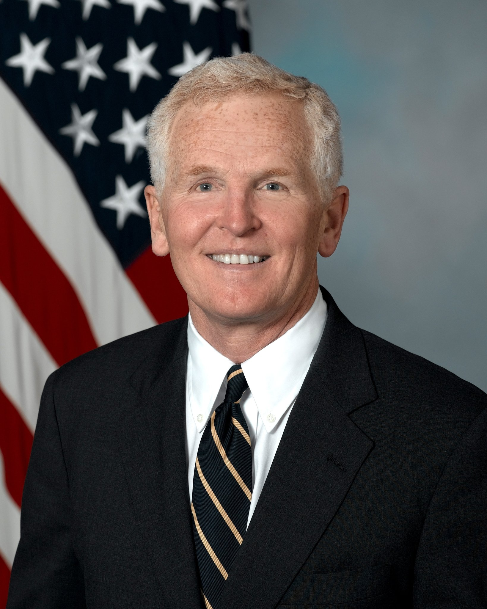 Image taken from the Official Biography of the Assistant Secretary of Defense for Health Affairs.